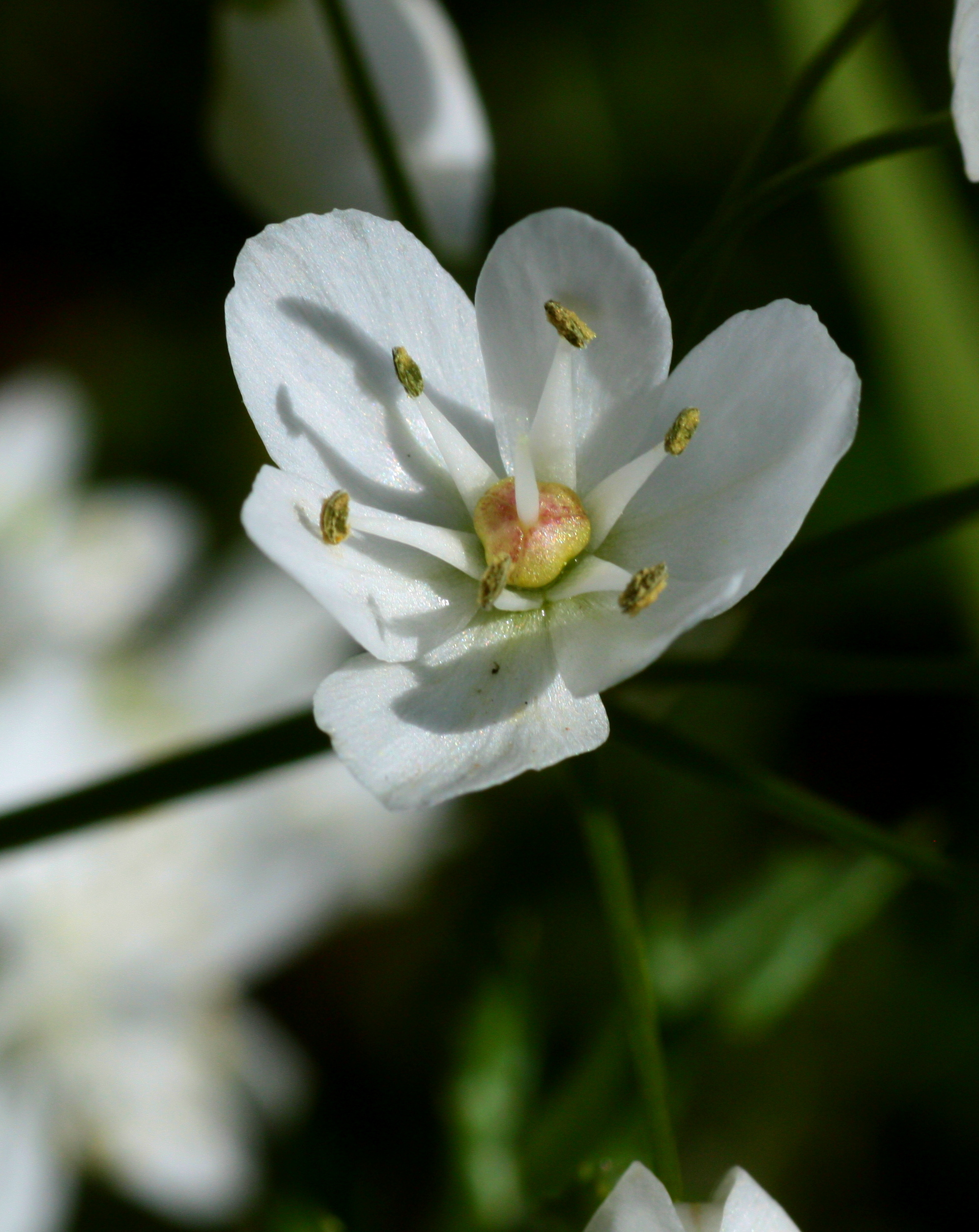 Flower of Naples garlic (Allium neapolitanum), from the family of Amaryllidaceae